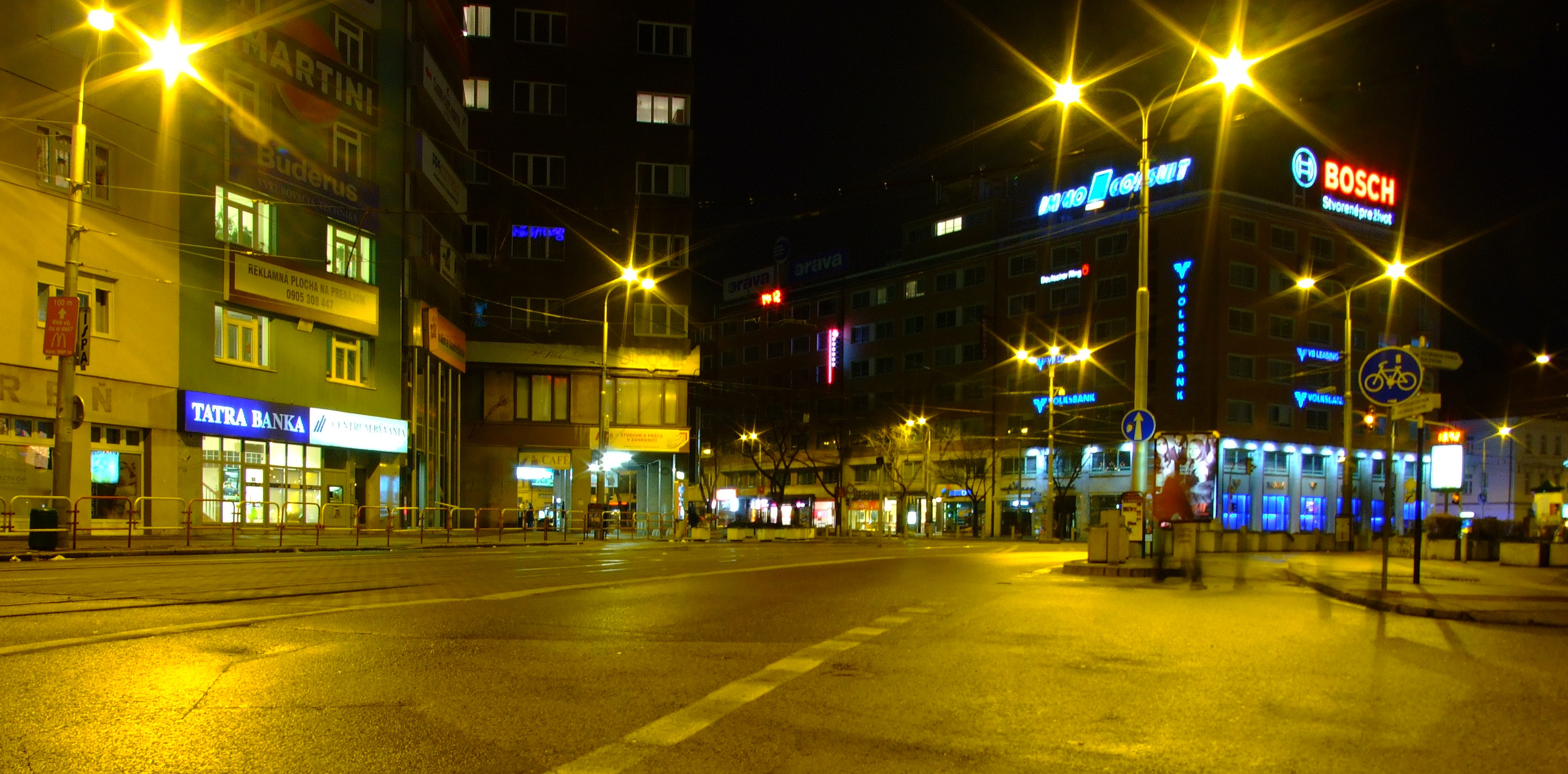 Kamenné námestie from south in Bratislava, Slovak capital. The shot was taken at night, few days before Christmashelp